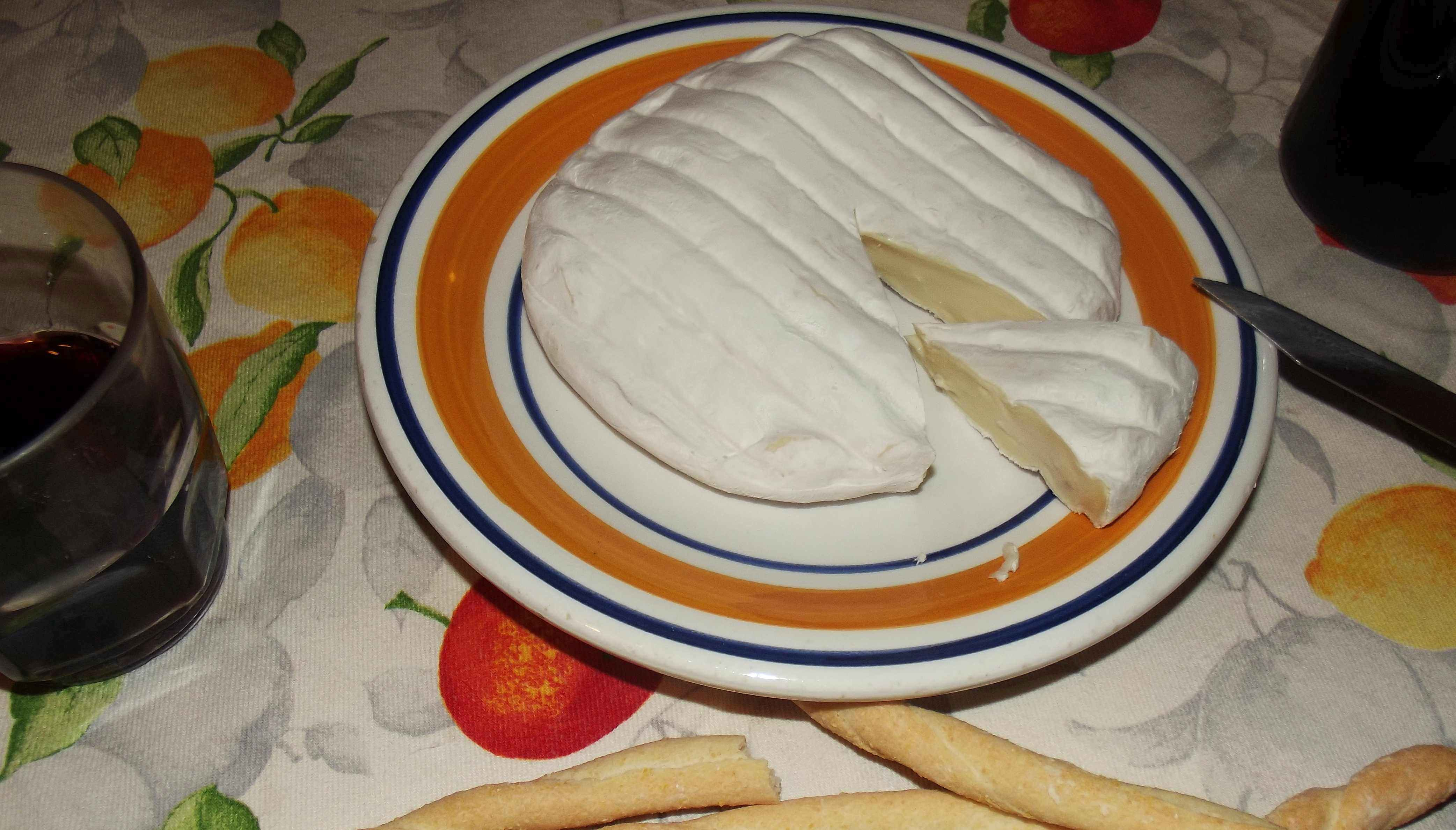 Paglierina (traditional cheese of Piedmont)